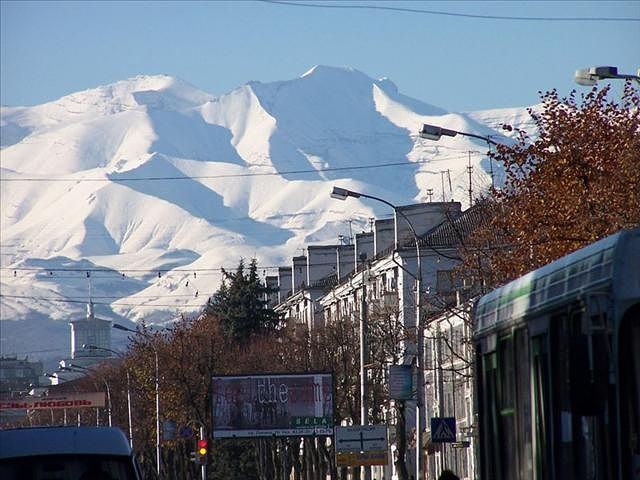 One of the streets in the city of Nalchik